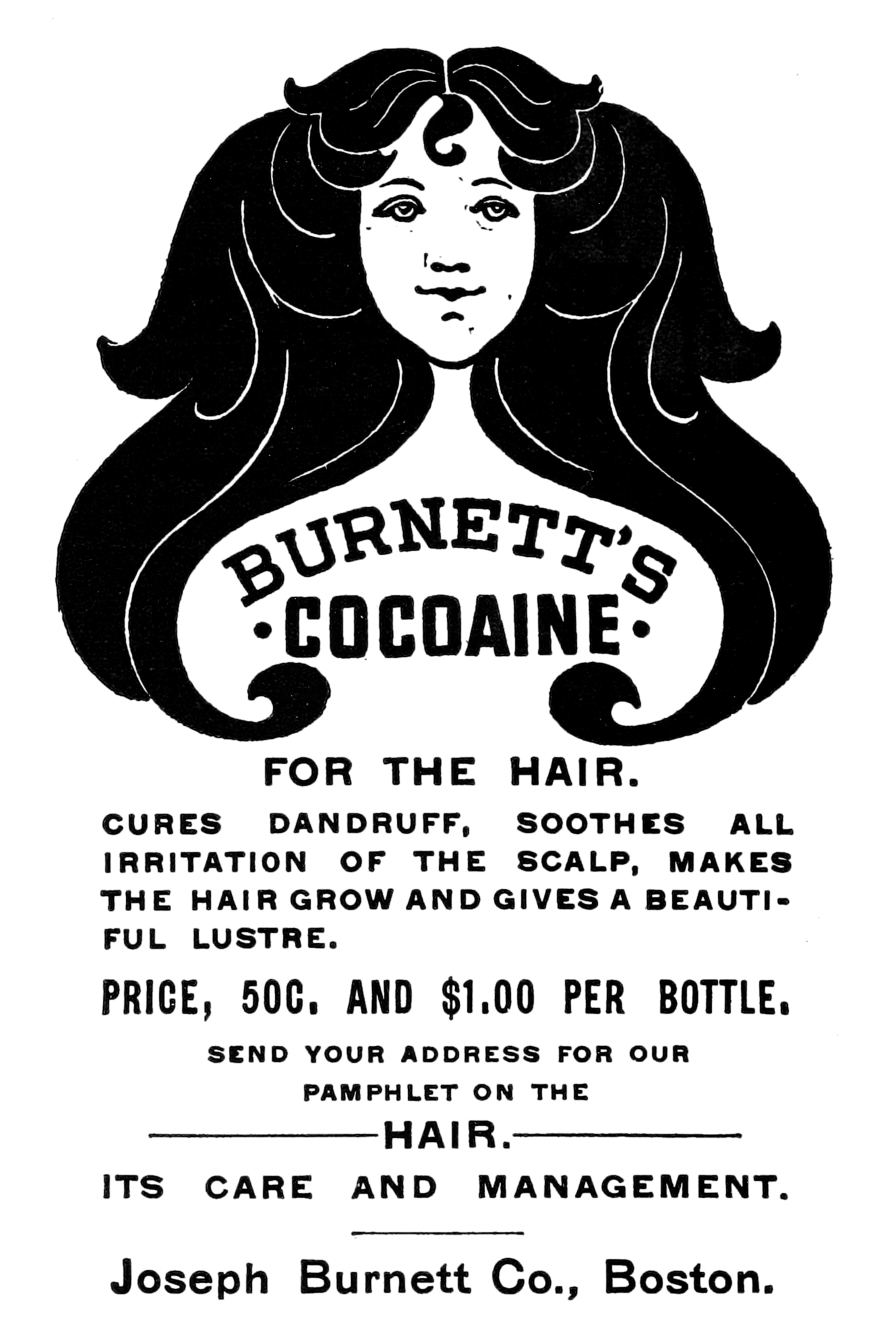 Advertisement in the January 1896 issue of McClure's Magazine for Burnett's Cocaine... for the hair.